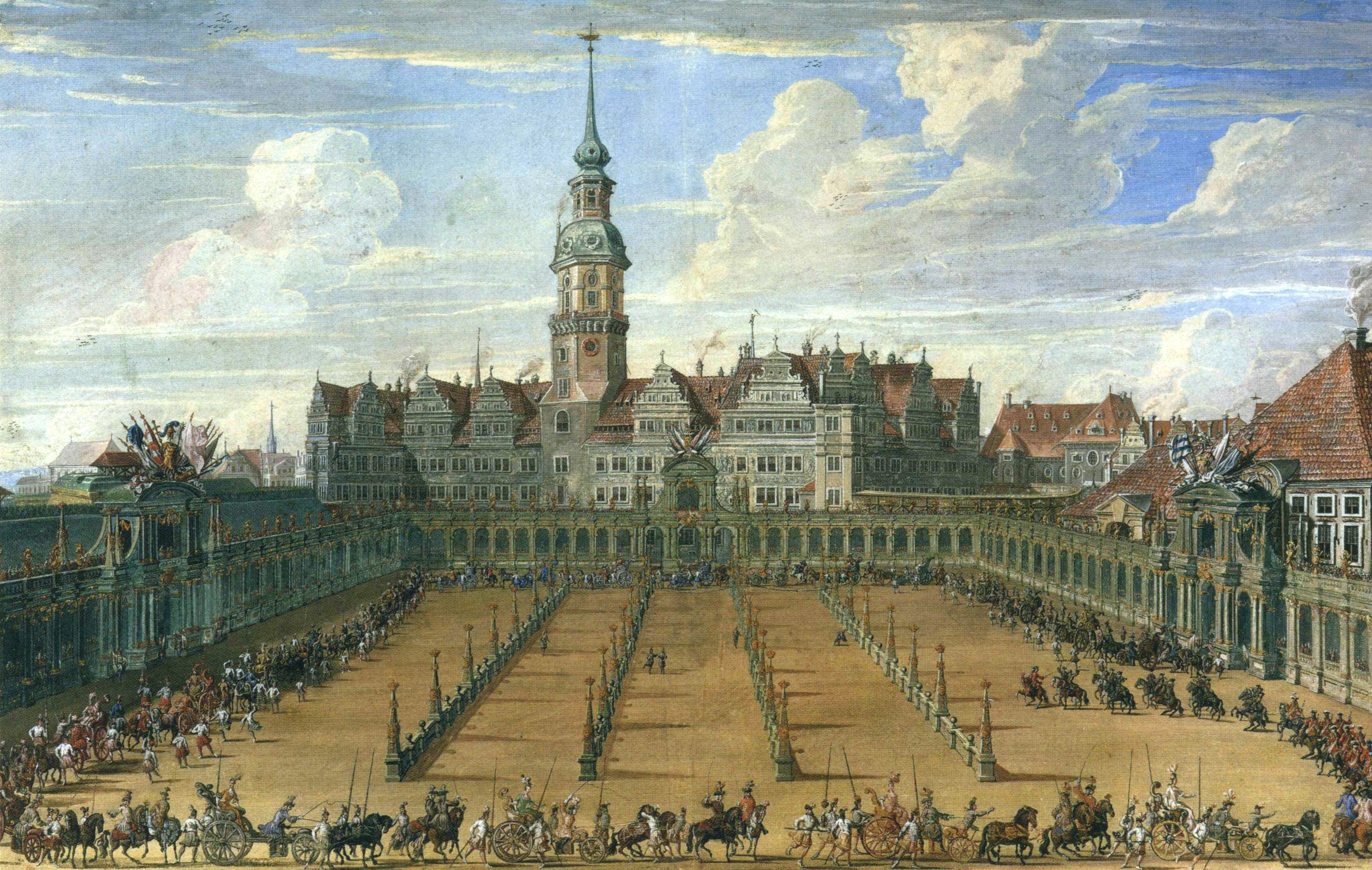 Royal games in 1709 in the "Festplatz" near today's Zwinger